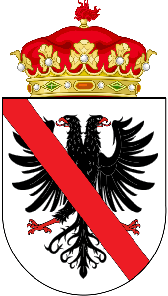 Coats of arms of Betrand Du Guesclin, 1st Duke of Molina and Soria